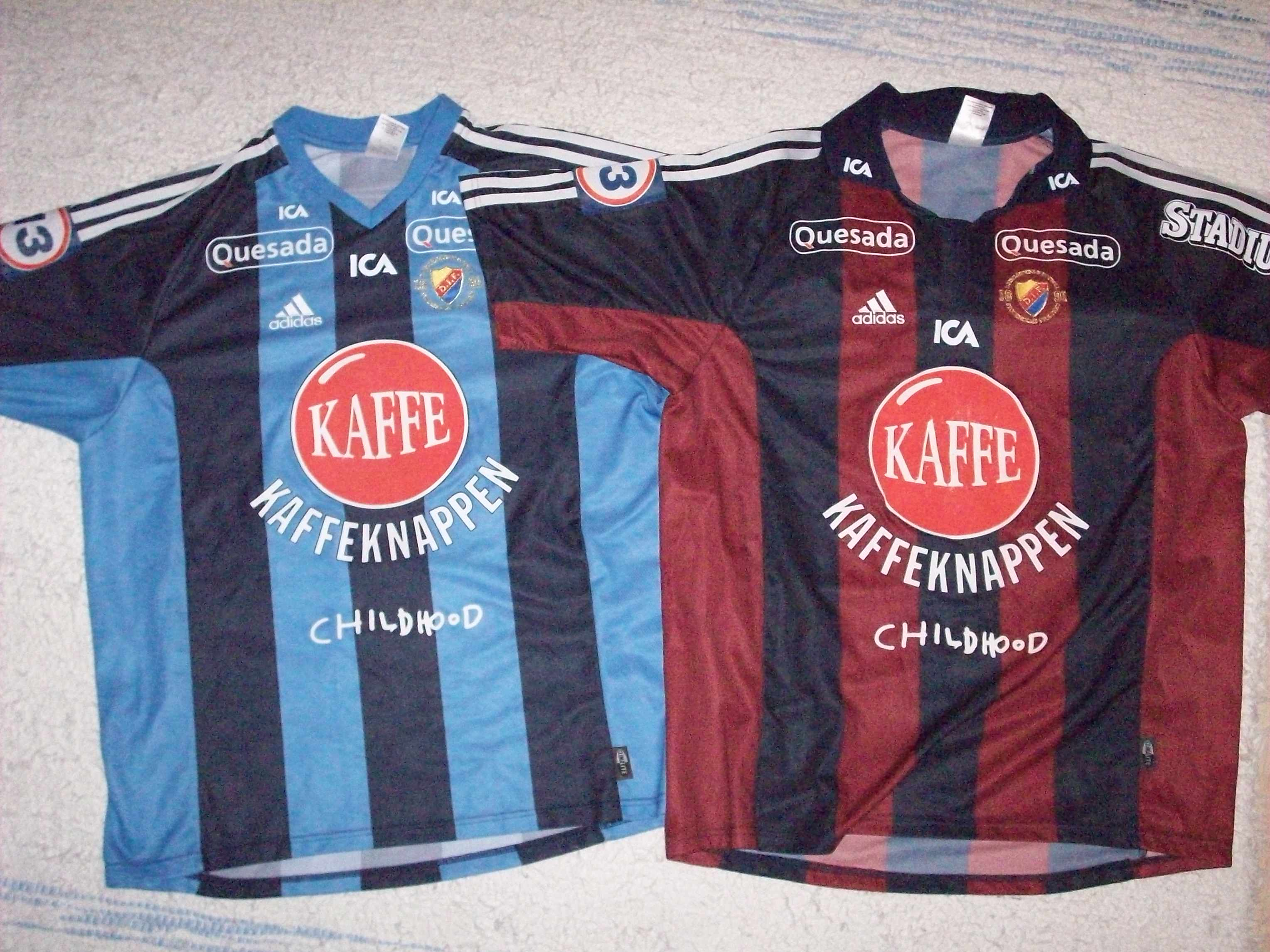 Official Djurgårdens IF away and home jersey for the football (soccer) team during the 2002 and 2003 season.